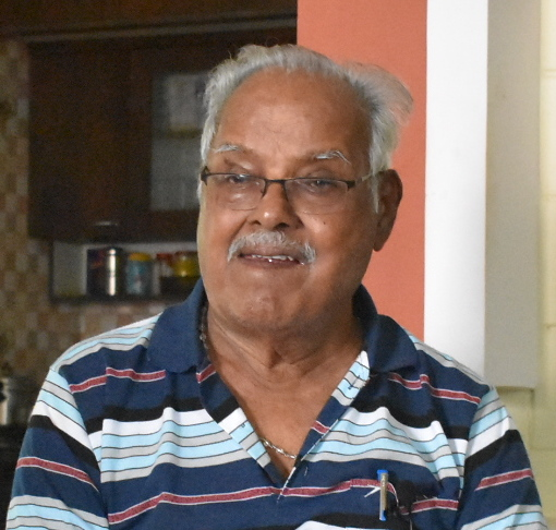 Kannada scholar, writer, Dravidologist and linguist.